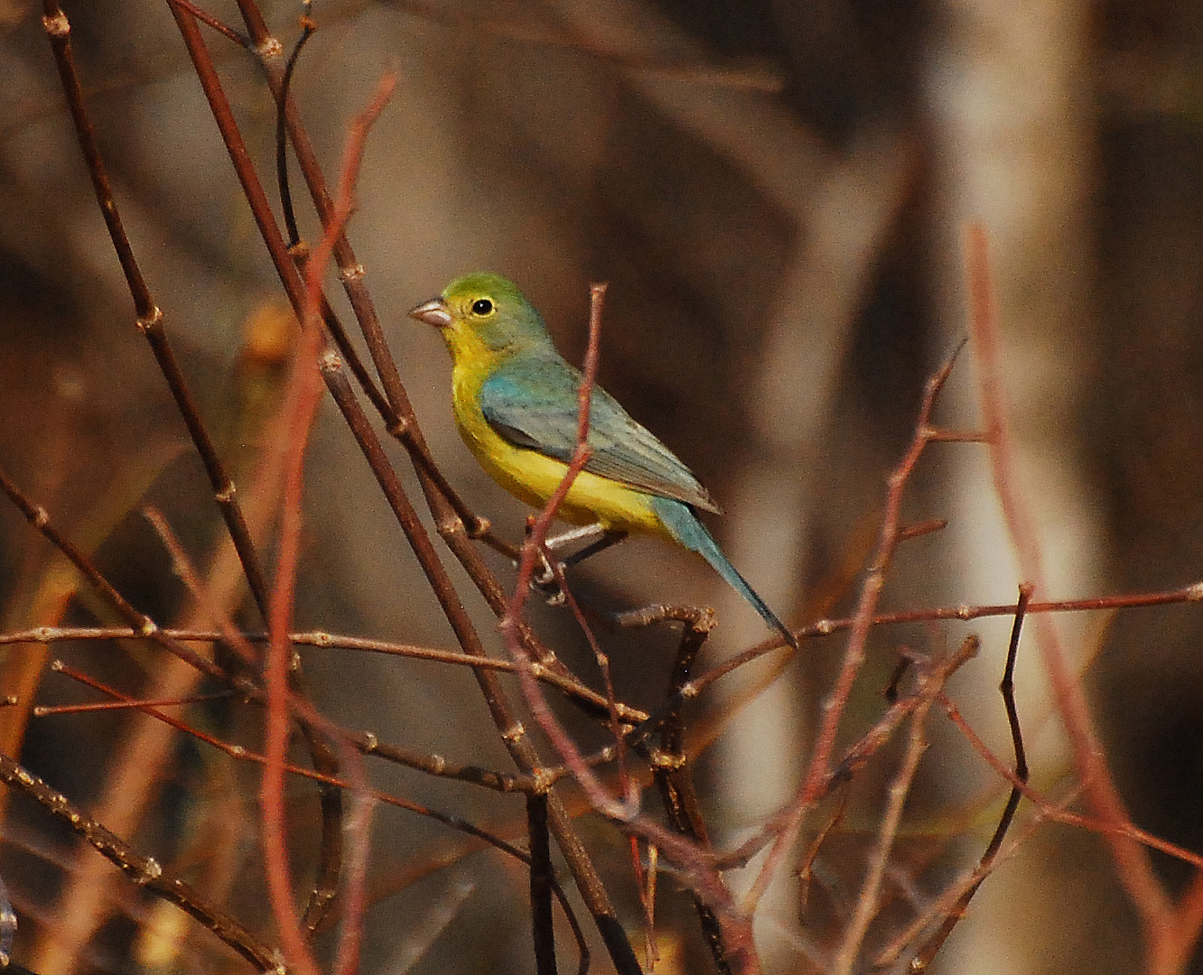 Passerina leclancherii, Orange-breasted Bunting along Mex-190 in the Tehuantepec drainage, Mexico, 080401.